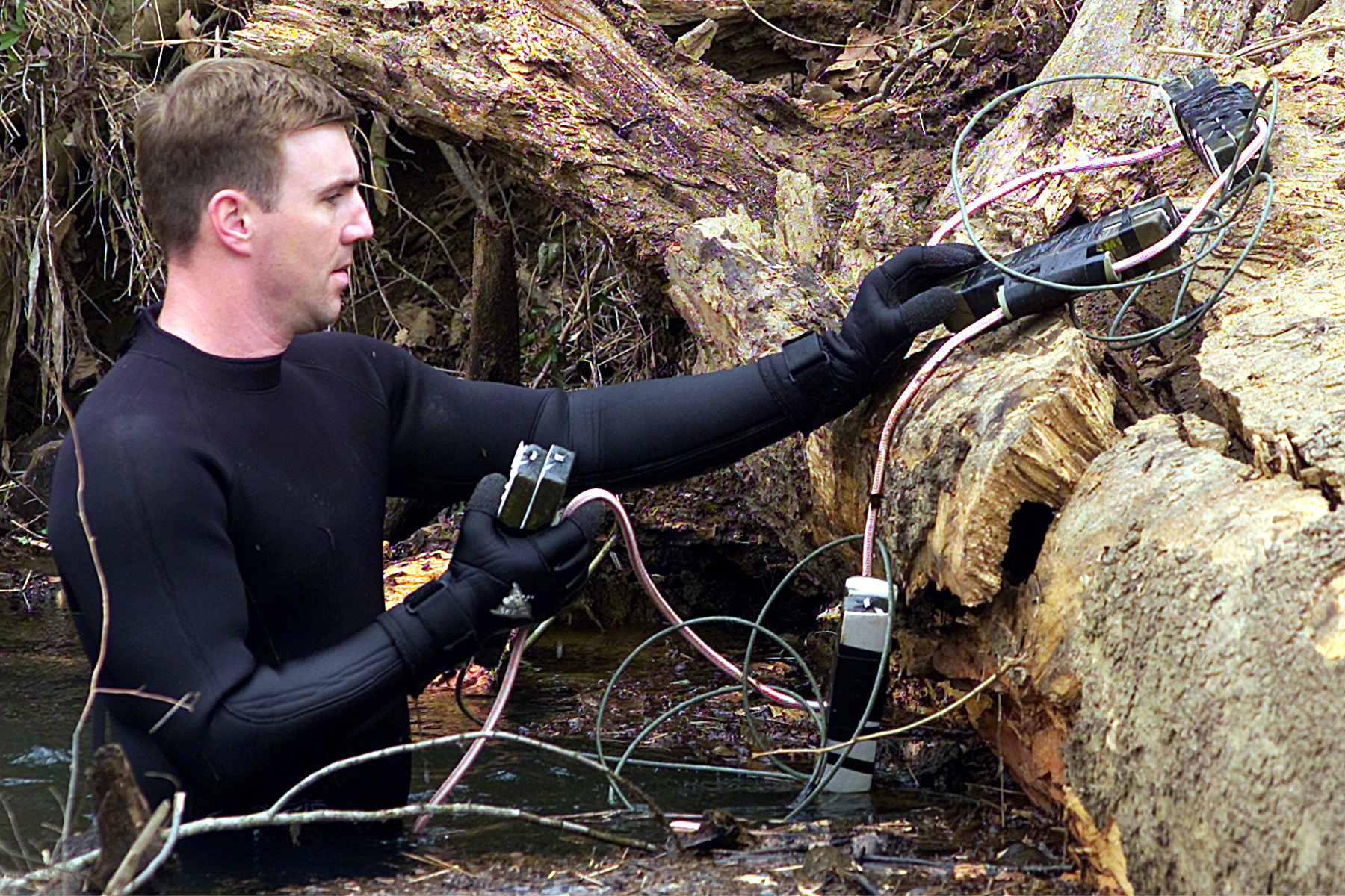 Farmville, VA (Apr. 15, 2002) -- Builder 1st Class Don Bergeron, assigned to Explosive Ordnance Disposal Mobile Unit (EODMU) 2 at Naval Weapons Station Yorktown, VA, secures a charge of high explosives around a fallen tree during debris removal training in the Appomattox river. The training was held in conjunction with the community relations project "Friends of the Appomattox," in which EOD technicians from four different EOD units work with local organizations to remove river obstructions to protect the sensitive ecosystem. U.S. Navy photo by Chief Photographer’s Mate William T. Wynn. (RELEASED)